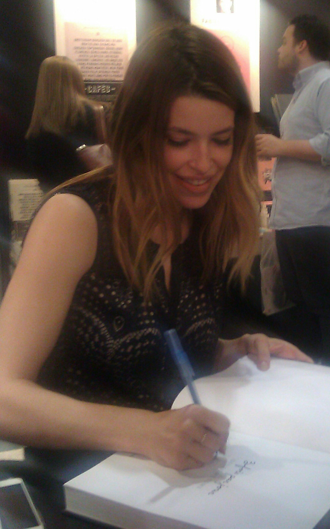 Marilou Bourdon photographed in Montreal, Quebec, Canada at the Salon du livre de Montréal 2016.